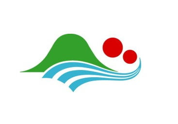 Flag of Nanbu Aomori